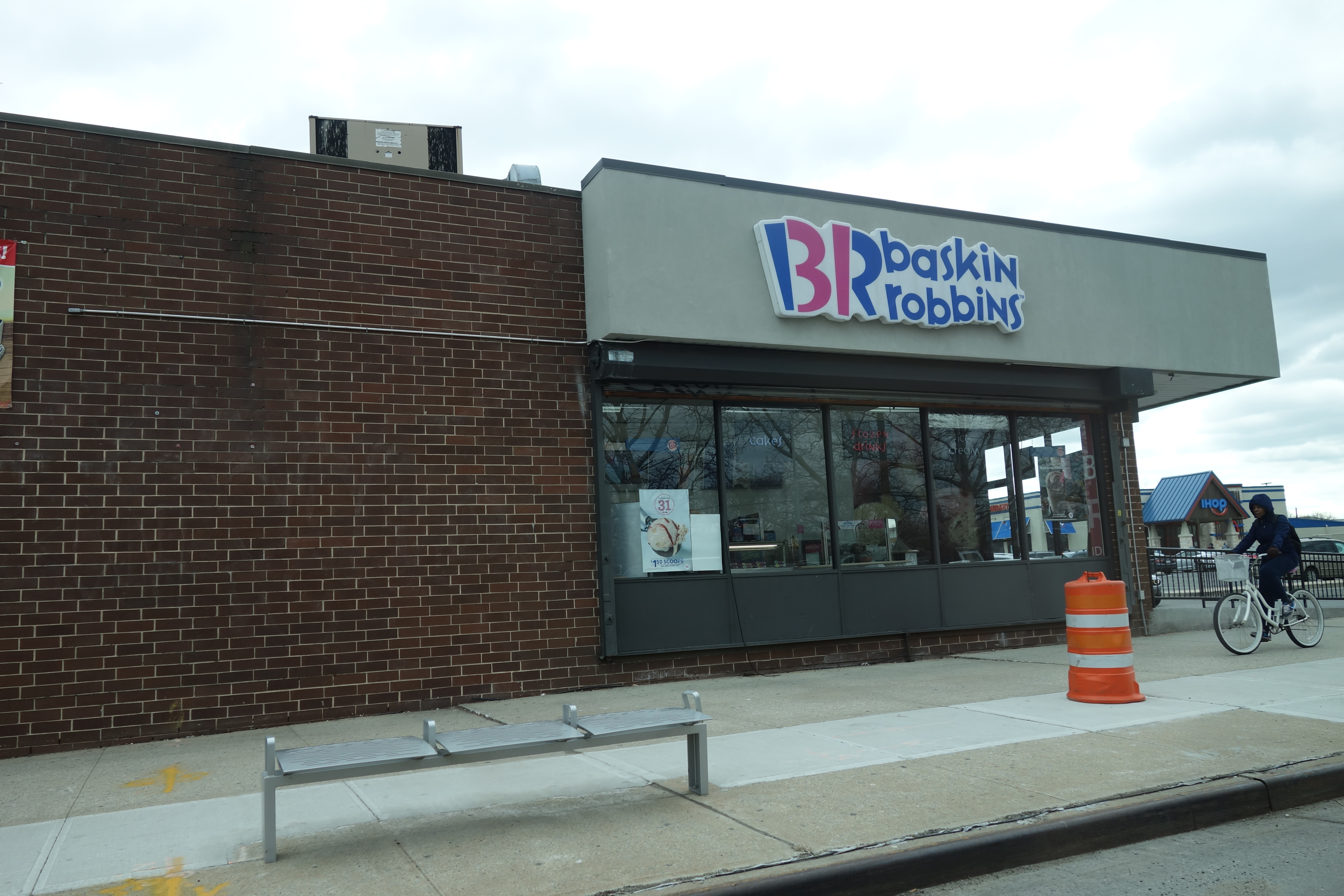 A Baskin Robins ice cream parlor in a shopping complex at Flatlands Avenue and Louisiana Avenue in Canarsie / Spring Creek, Brooklyn.